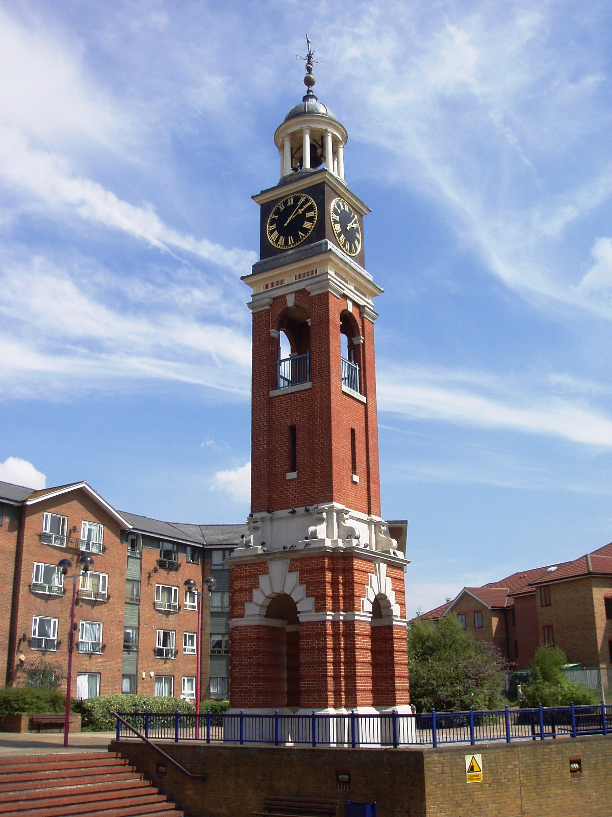 In the middle of the shopping centre, the very heart of Thamesmead. There's one pub, a Morrisons and an Iceland. Links: Randomness Guide to London.